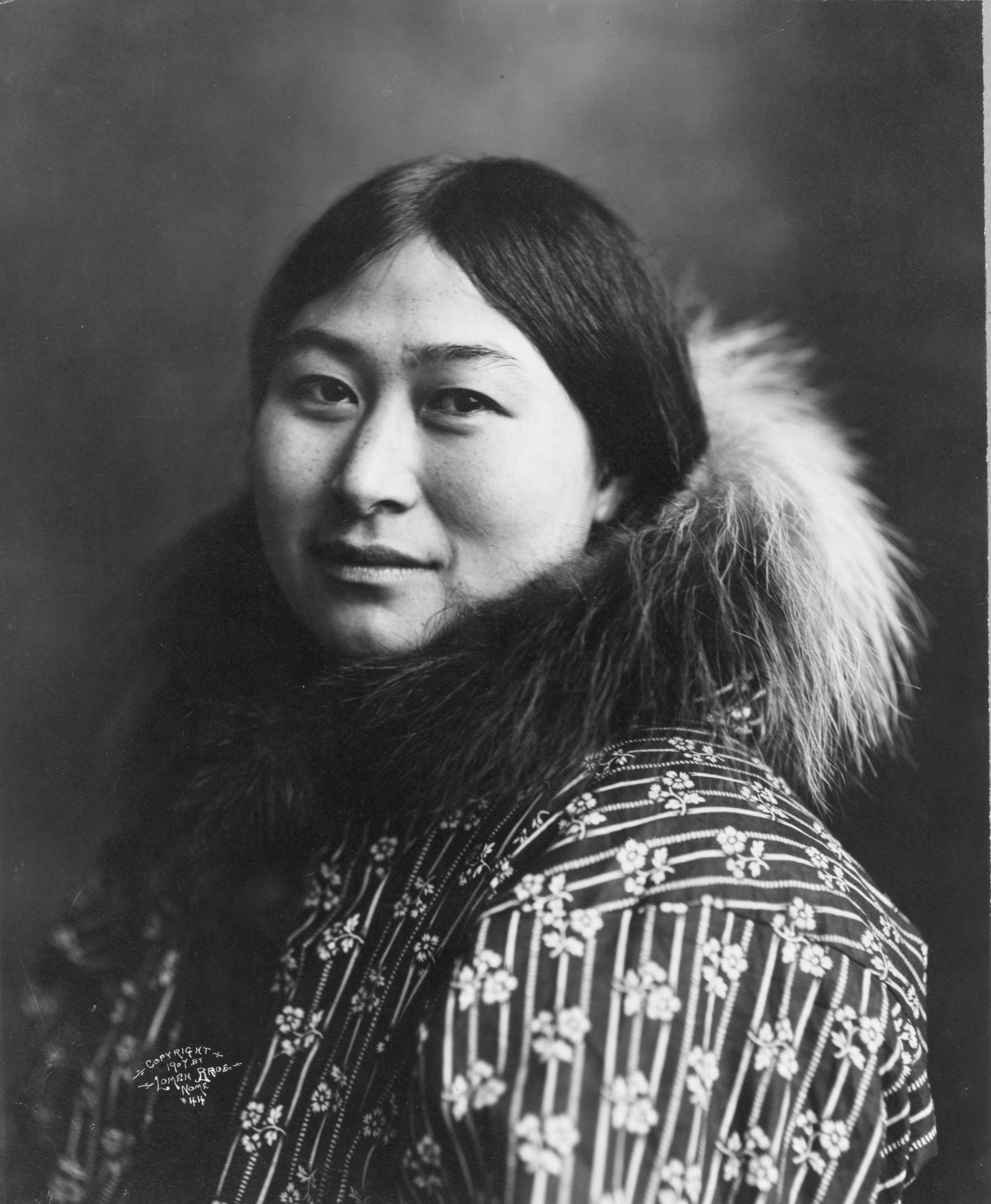 Photograph of Nowadluk/Nowadlook (Nora) Ootenna wearing a coat with a fur collar. Ootenna was an Inupiat woman who was a popular subject for Alaskan photographers around the time - [1] [2] [3] [4] [5] [6] [7]. She was has been mentioned as the daughter of James Keok[8] (.doc) (though their recorded birth dates makes this unlikely [9]) and she was married to George Ootenna[10] who were natives of Cape Prince of Wales[11] and worked as reindeer herders[12] (a business in which Lomen Bros was the main investor in Alaska)[13]. The Glenbow archive places most of the photos of her there.[14] Nora was born in 1885 and as of the 1910 Census she lived in Port Clarence (essentially Cape Prince of Wales).[15]